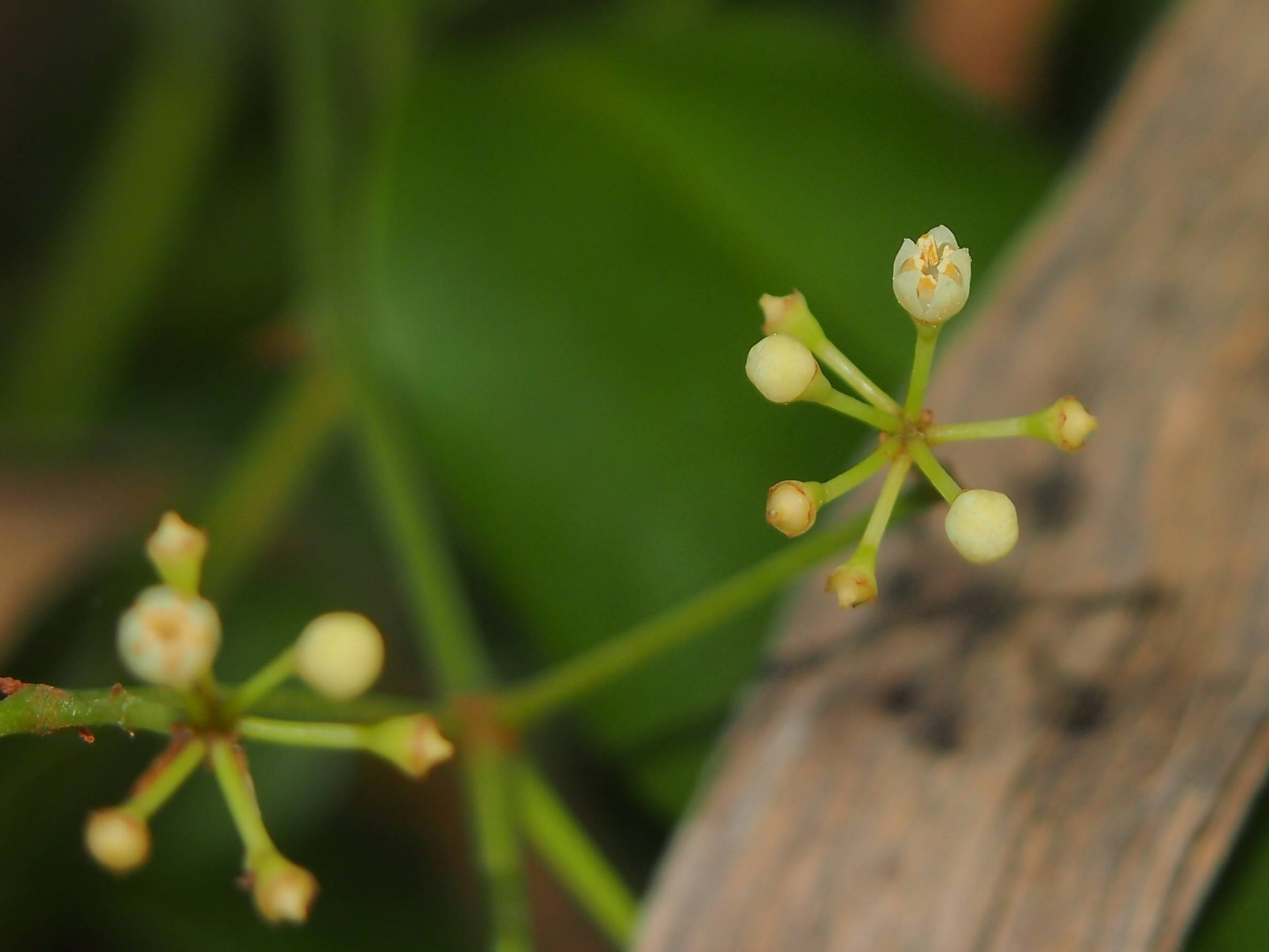 Polyscias australiana flower